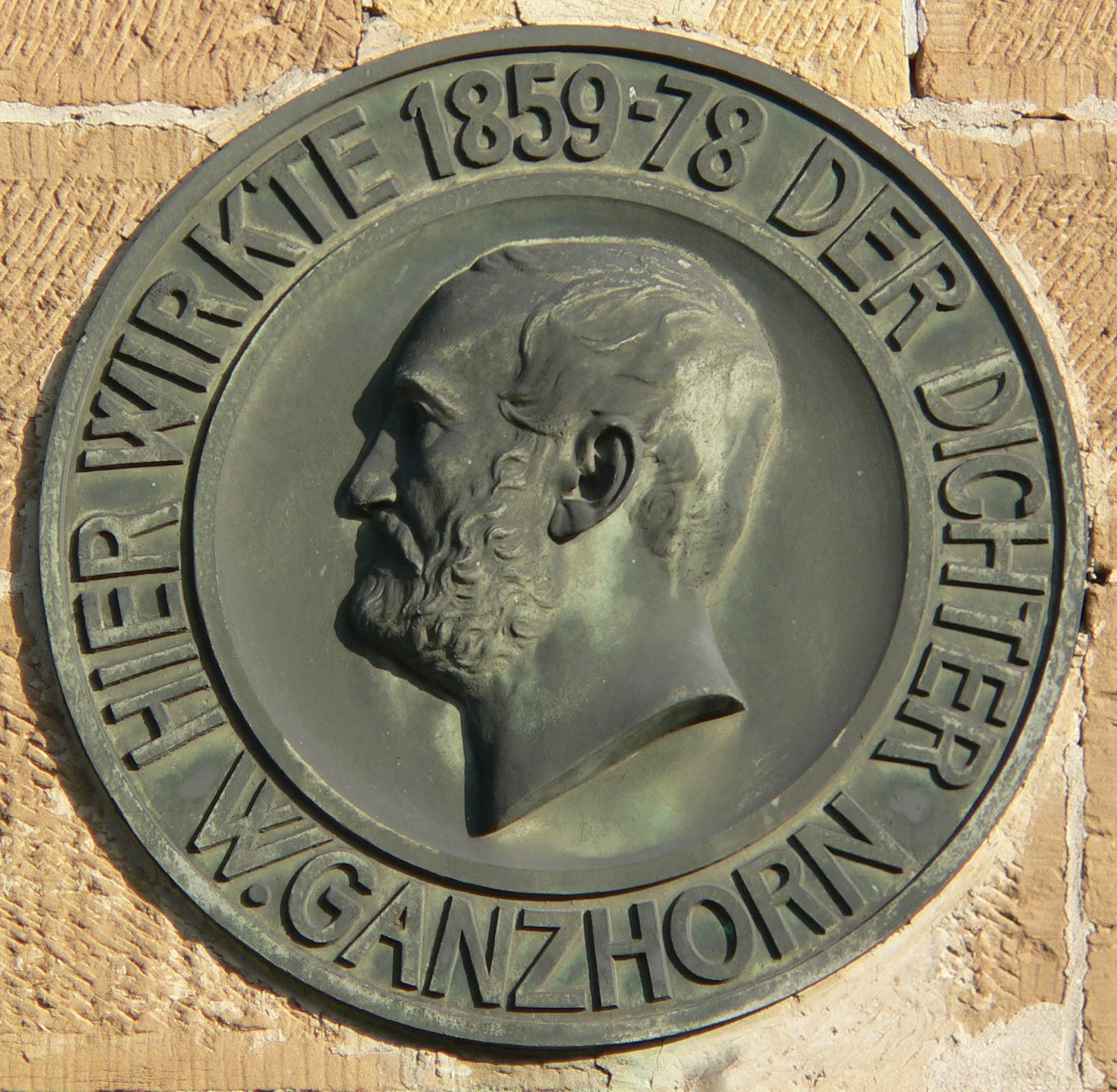 Medallion with the portrait of Wilhelm Ganzhorn at the former county court of the city Neckarsulm